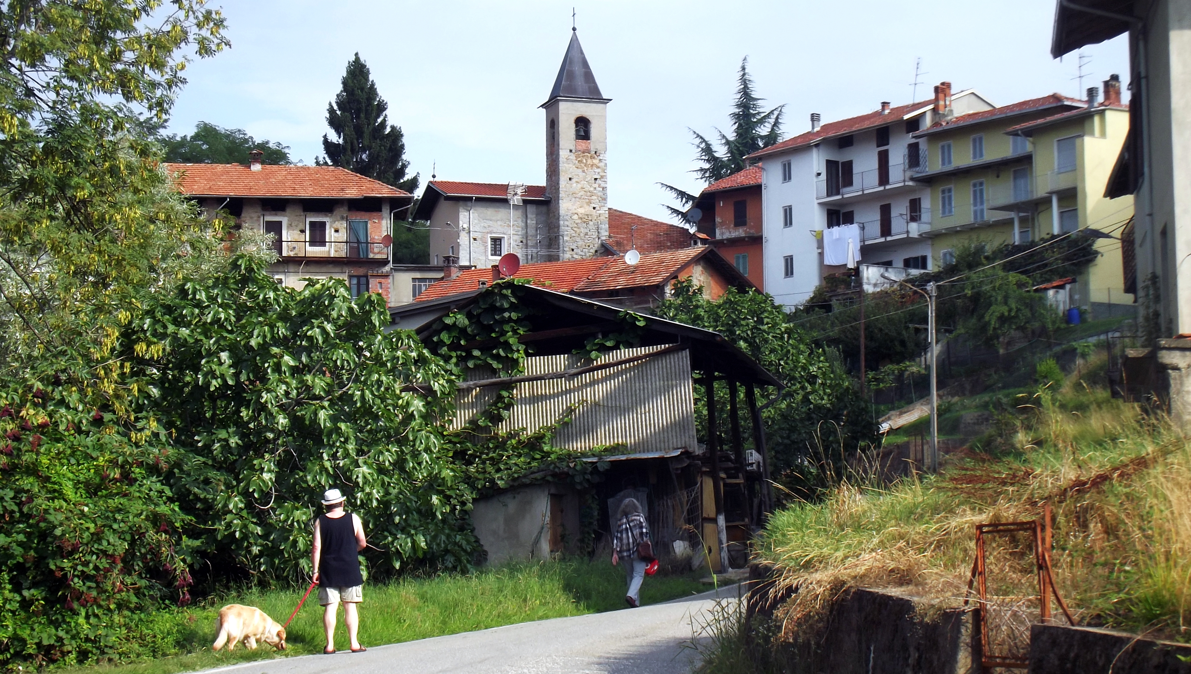 Mezzana Mortigliengo (BI, Italy): panorama